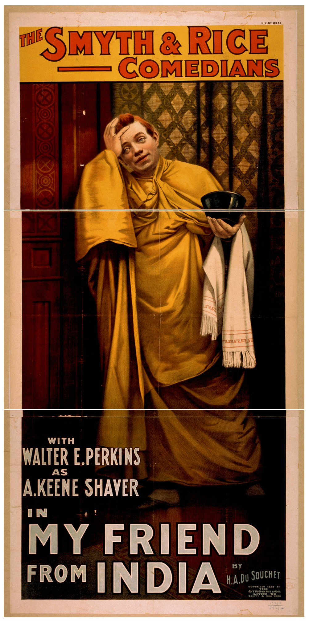 Title: The Smyth & Rice Comedians with Walter E. Perkins as A. Keene Shaver in My friend from India by H.A. DuSouchet. Abstract/medium: 1 print : color lithograph ; sheet 212 x 102 cm. (poster format)